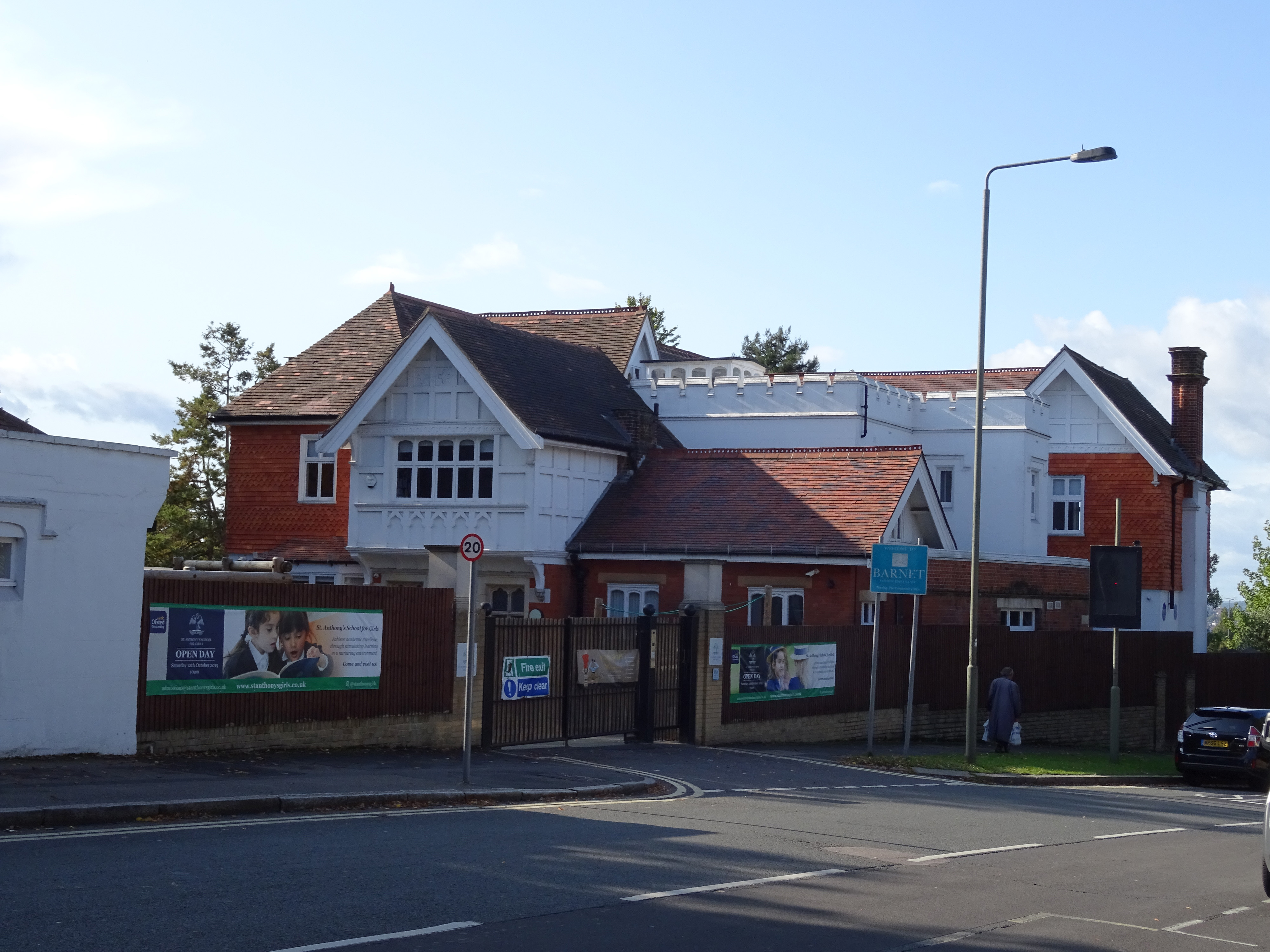 St Anthony’s School Ivy House 94-96 North End Road Golders Green NW11 7SX London Borough of Barnet